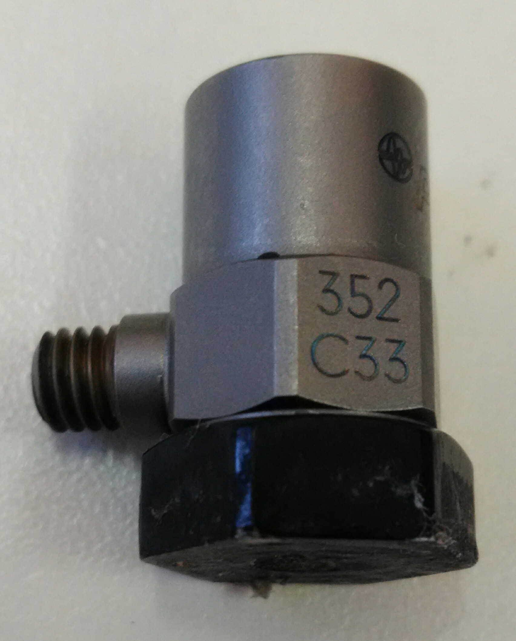 PCB's Piezoelectric Accelerometer